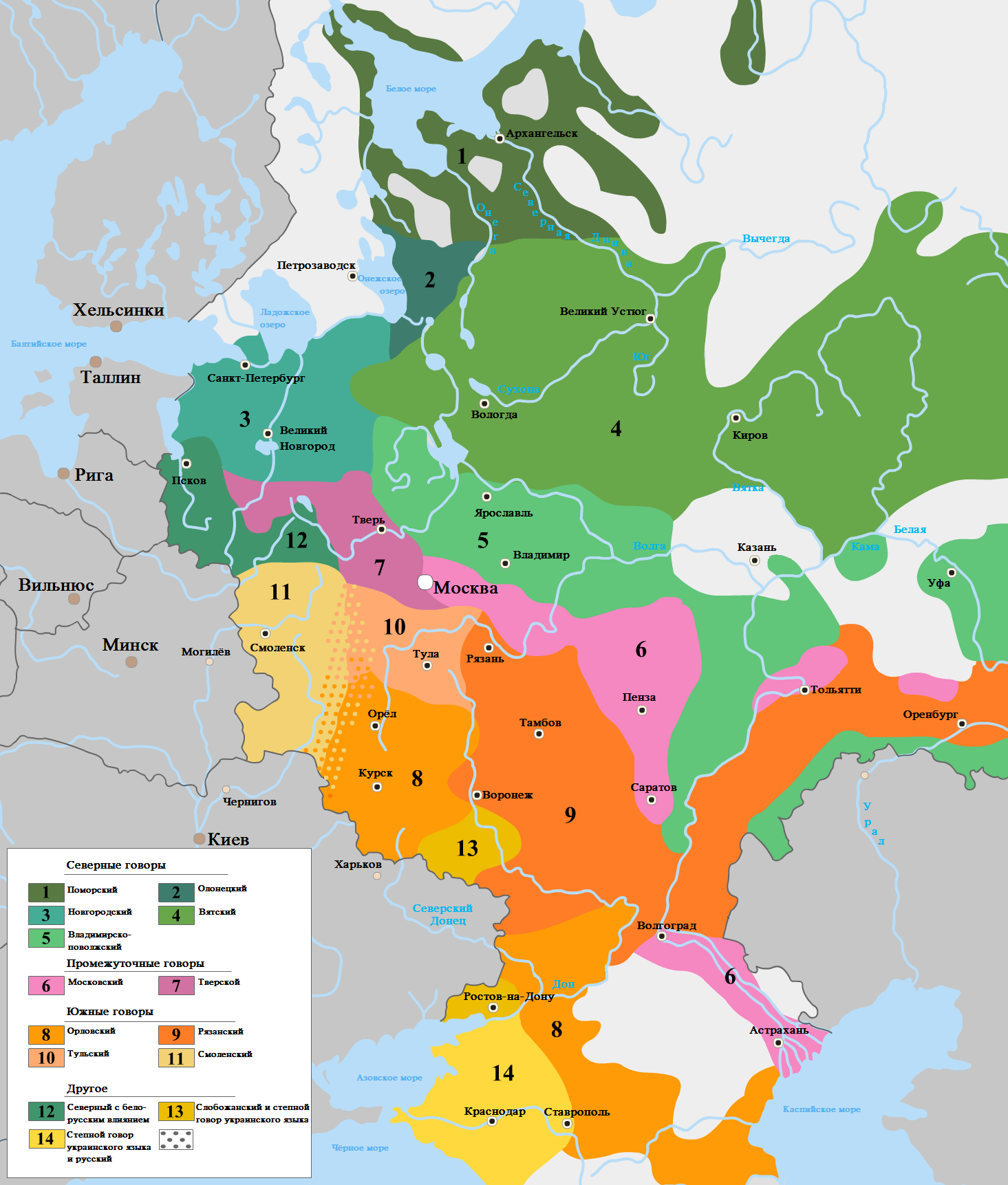 Dialects of Russian language Northern dialects 1. Arkhangelsk dialect 2. Olonets dialect 3. Novgorod dialect 4. Viatka dialect 5. Vladimir dialect Central dialects 6. Moscow dialect 7. Twer dialect Southern dialects 8. Orel (Don) dialect 9. Ryazan dialect 10. Tula dialect 11. Smolensk dialect Other 12. Northern Russian dialect with Belarusian influences 13. Sloboda and Steppe dialects of Ukrainian language 14. Steppe dialect of Ukrainian with Russian influences